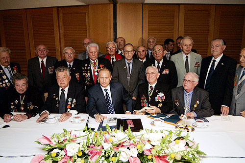 JERUSALEM. Meeting with veterans of the Great Patriotic War living in Israel.